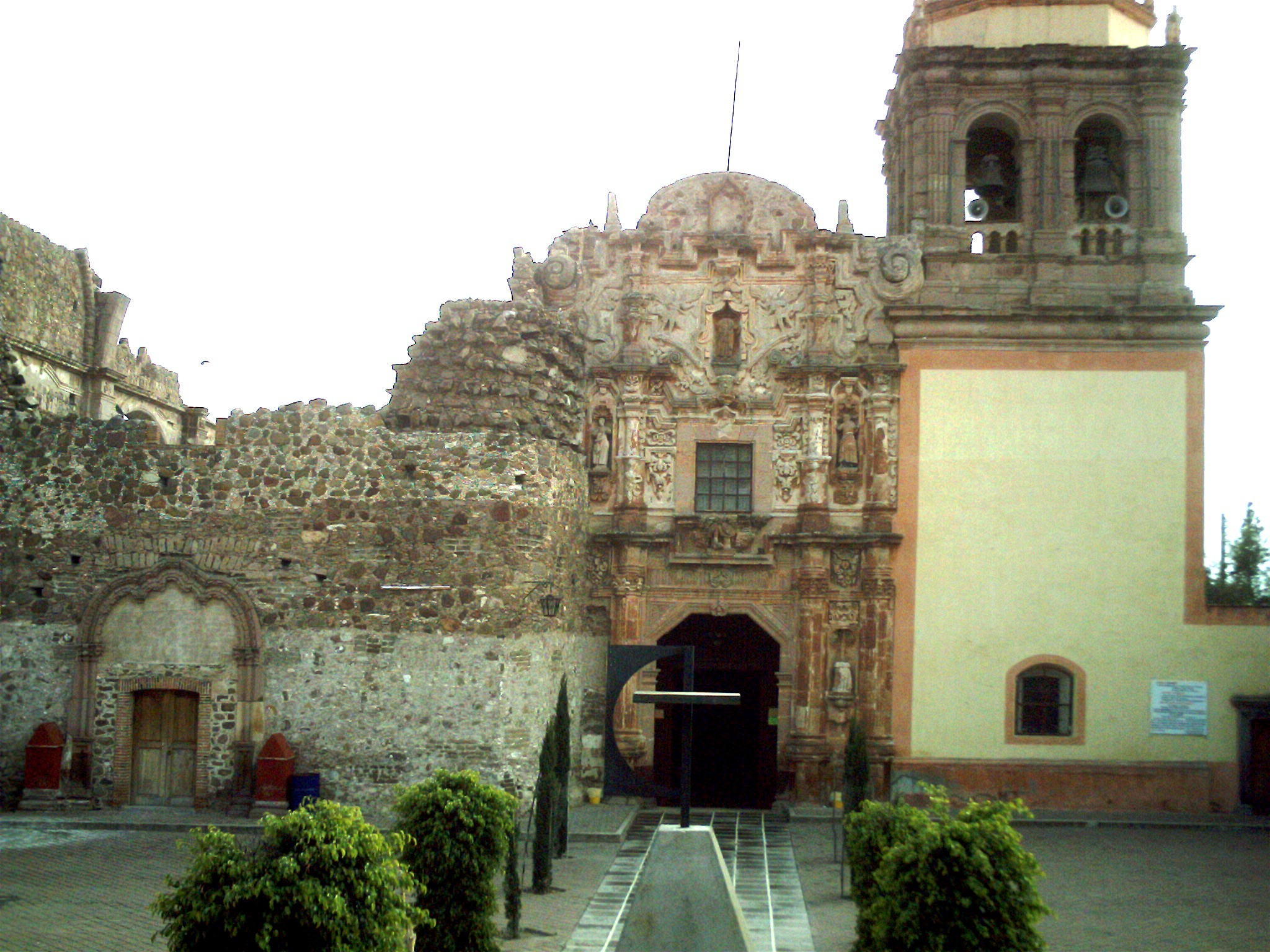 Town of Pinos: Main temple